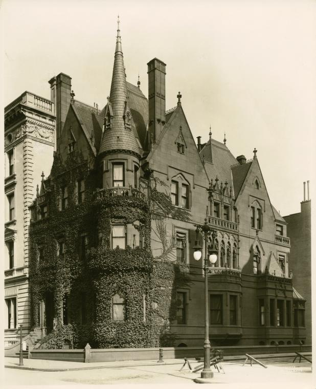 Jay Gould residence at 1082 Fifth Avenue - East 89th Street in New York.